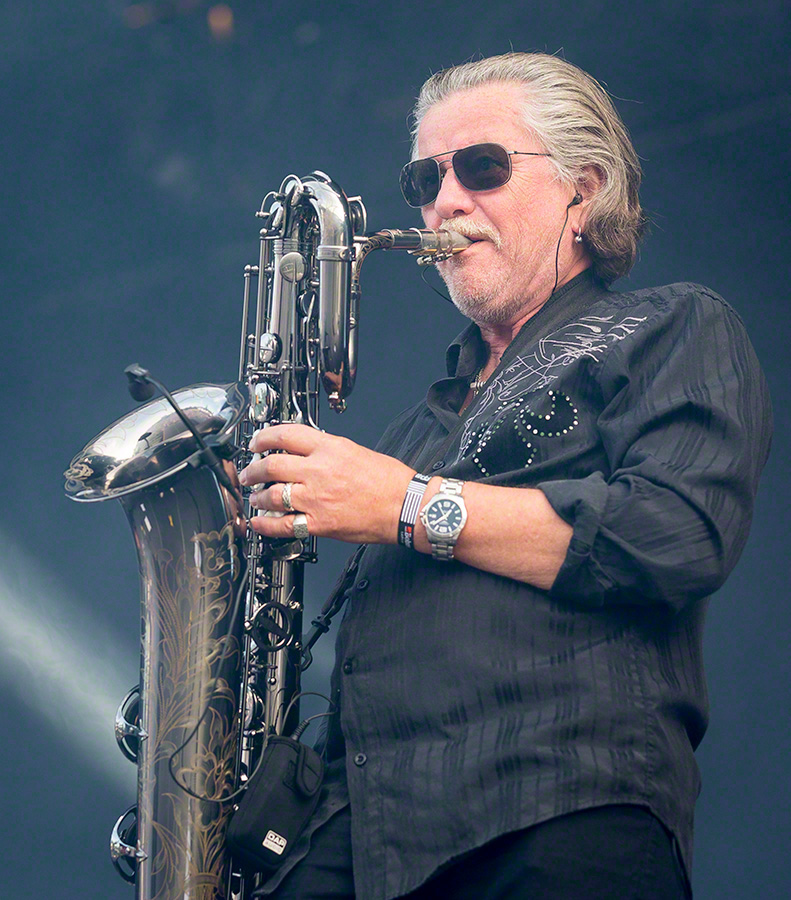 Bjørn Røstad performs with Åge Aleksandersen and Sambandet at the main stage during Stavernfestivalen in Stavern on 08 July 2016. Lineup:Åge Aleksandersen (guitar / vocal)Skjalg Raaen (guitar)Steinar Krokstad (drums)Morten Skaget (bass)Gunnar Pedersen (guitar)Terje Tranaas (keyboard)Bjørn Røstad (baritone saxophone)Unidentified (trumpet)Unidentified (trombone)Unidentified (tenor saxophone)